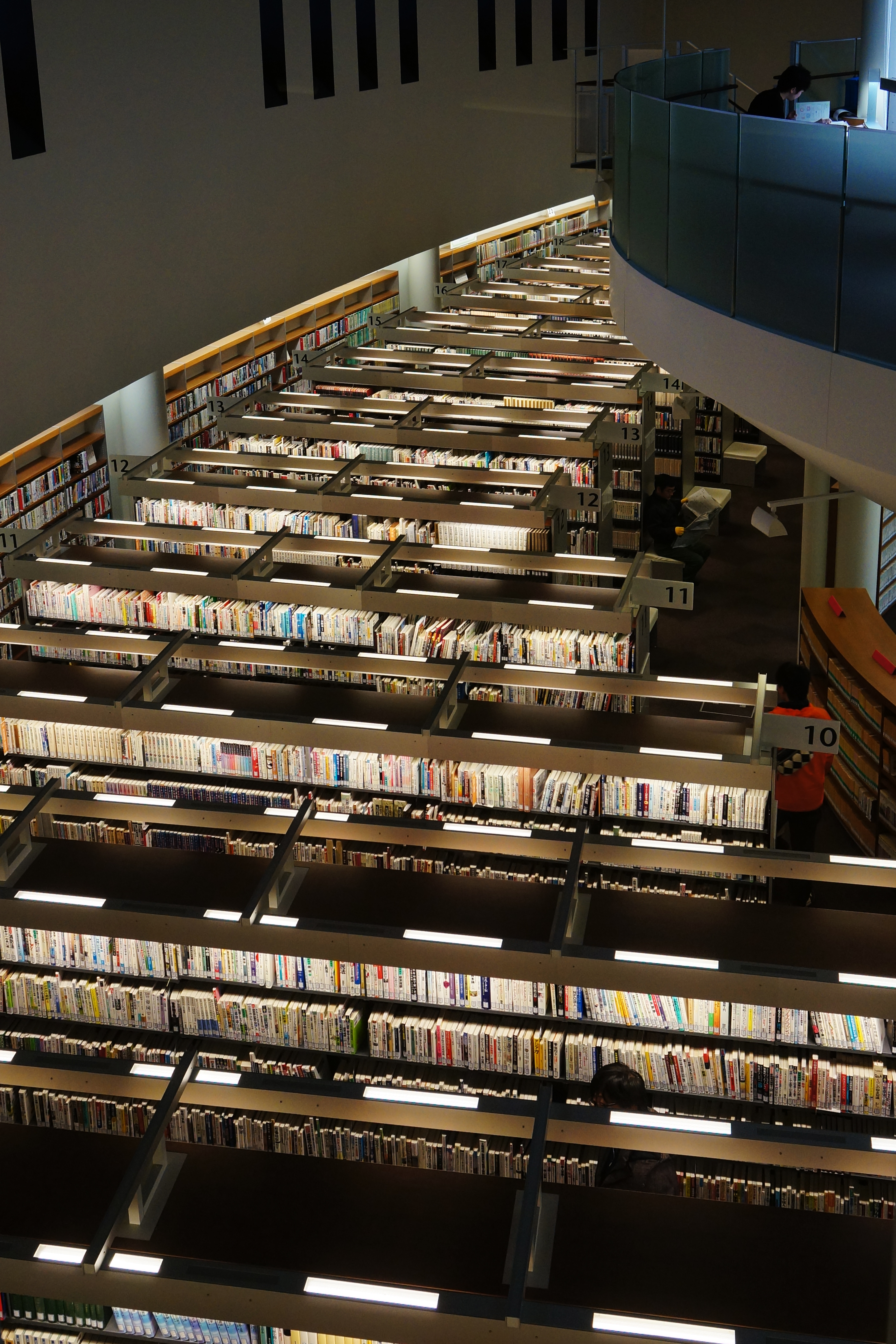 Wakayama Prefectural Information Exchange Center Big-U in Tanabe, Wakayama prefecture, Japan.